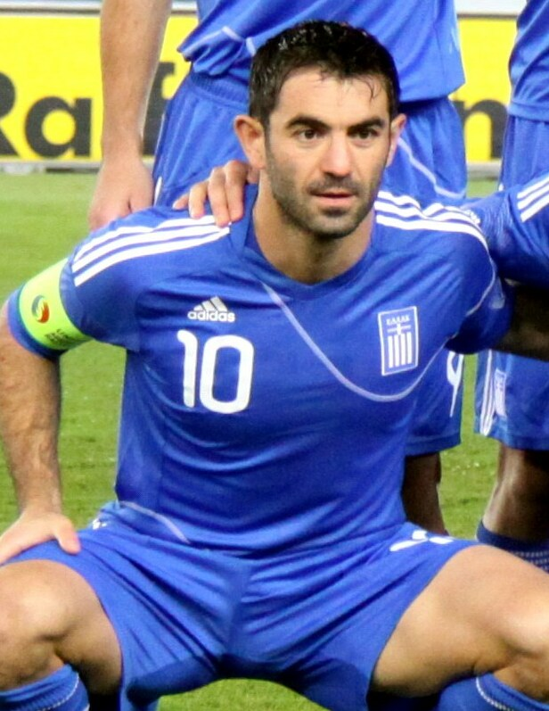 Greece national football team against the Austrian national football team (2:1)